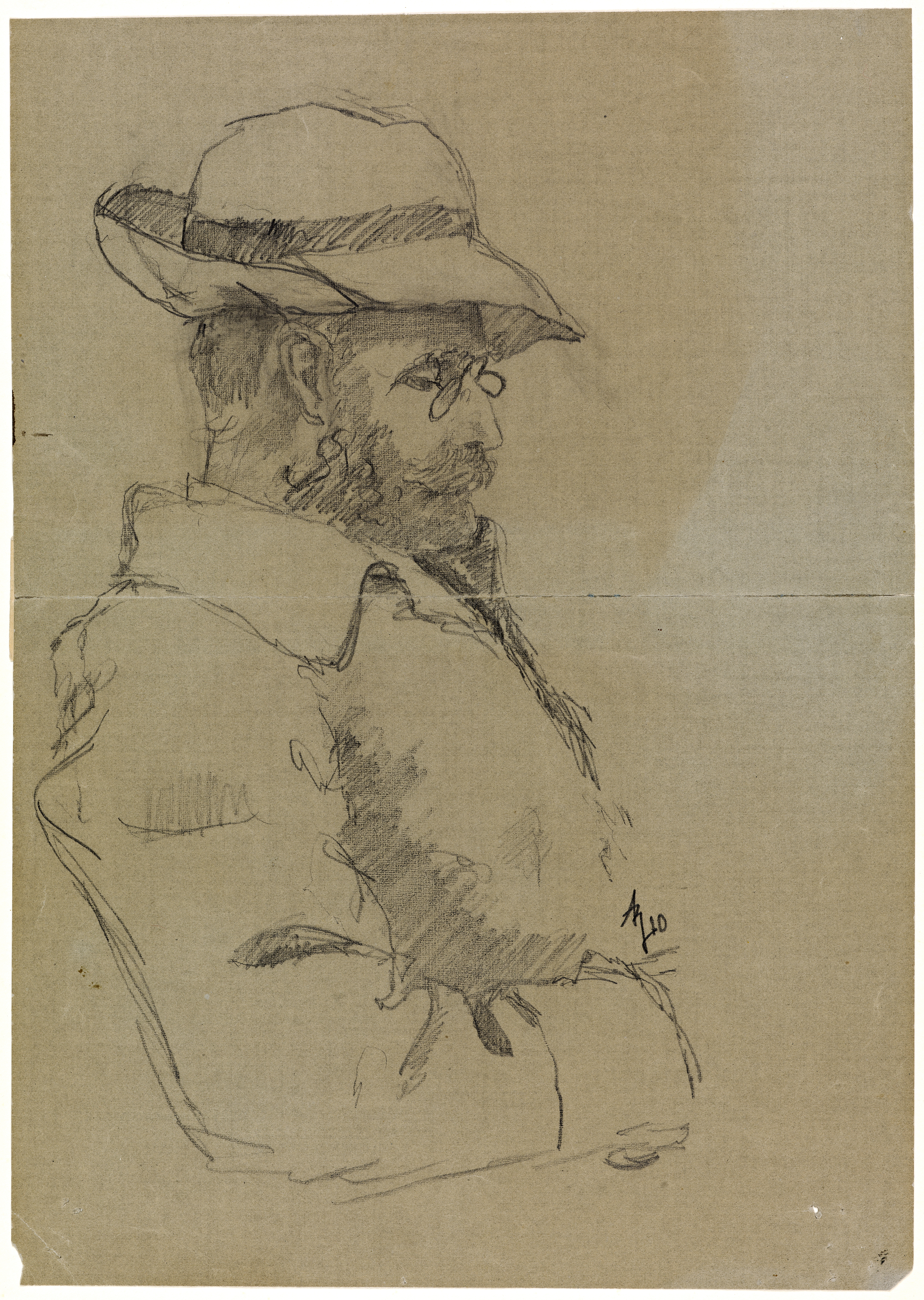 Dato / Date: Tegnet i 1910 Kunstner / Artist: Andreas Bloch (1860-1917) Digital kopi av original / Digital copy of original: original tegning Eier / Owner Institution: Nasjonalbiblioteket / National Library of Norway Lenke / Link: Bildesignatur / Image Number: blds_06330